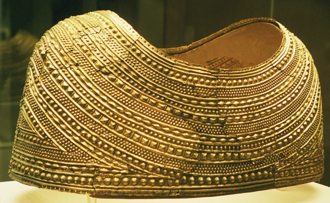 The Mold gold cape. Bronze Age, about 1900-1600 BC/ From Mold, Flintshire, North Wales [1]